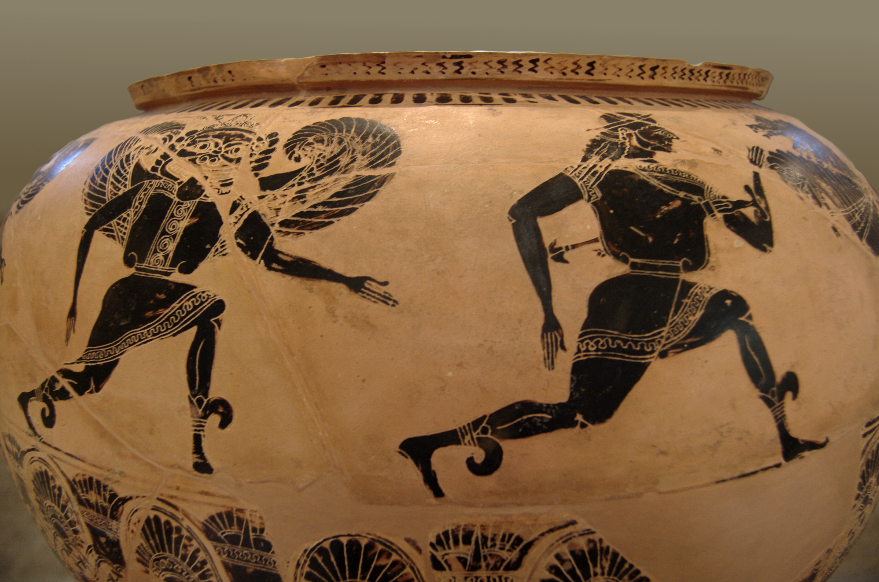 So-called “Gorgon Painter's dinos”, black-figure technique with crimson appreciations (?). From Etruria, ca. 580 BC. Detail of the shoulder: Perseus followed by the Gorgons after the murder of their sister Medusa.